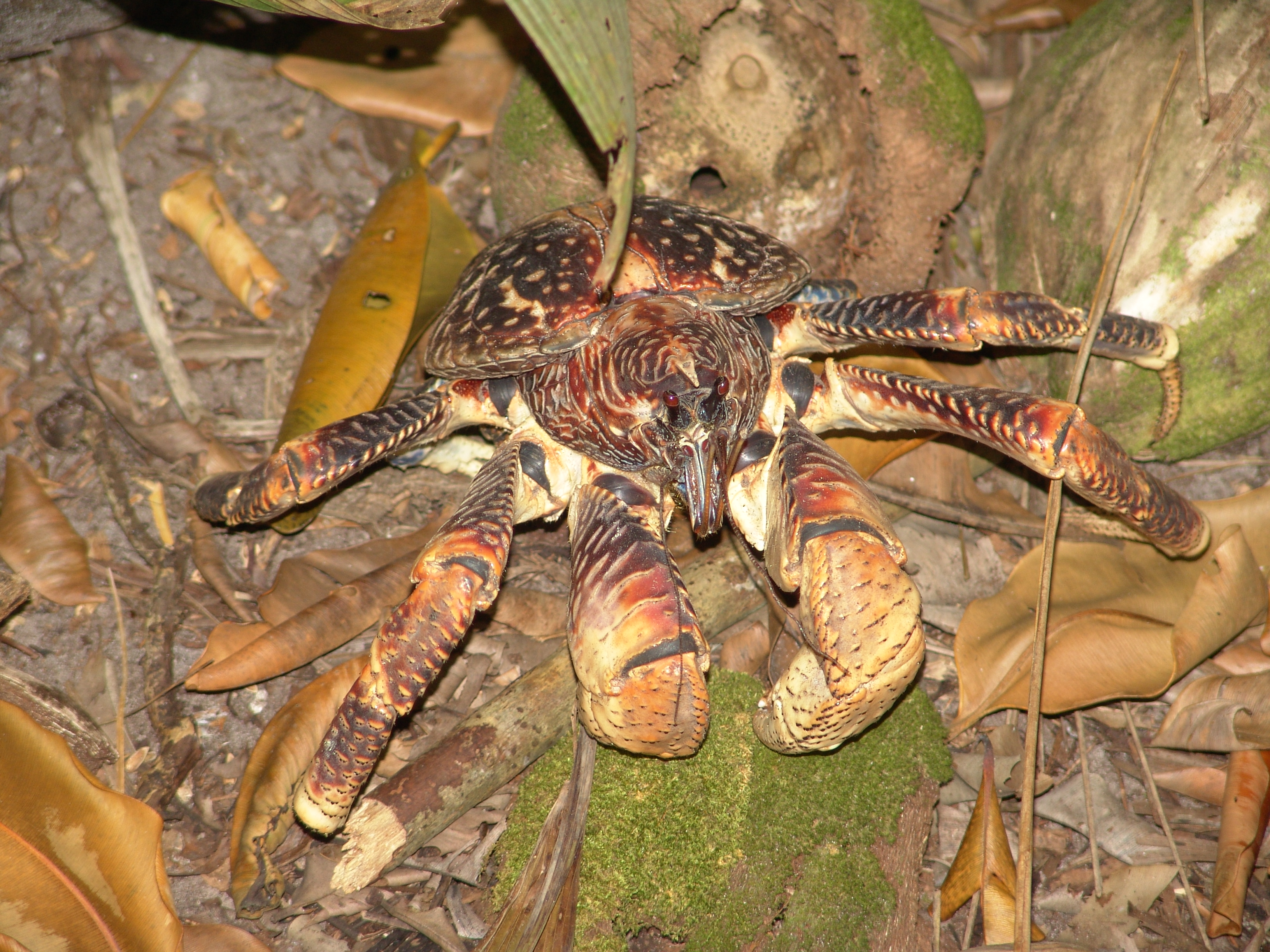 Diego Garcia (Chagos Archipelago), British Indian Ocean Territory